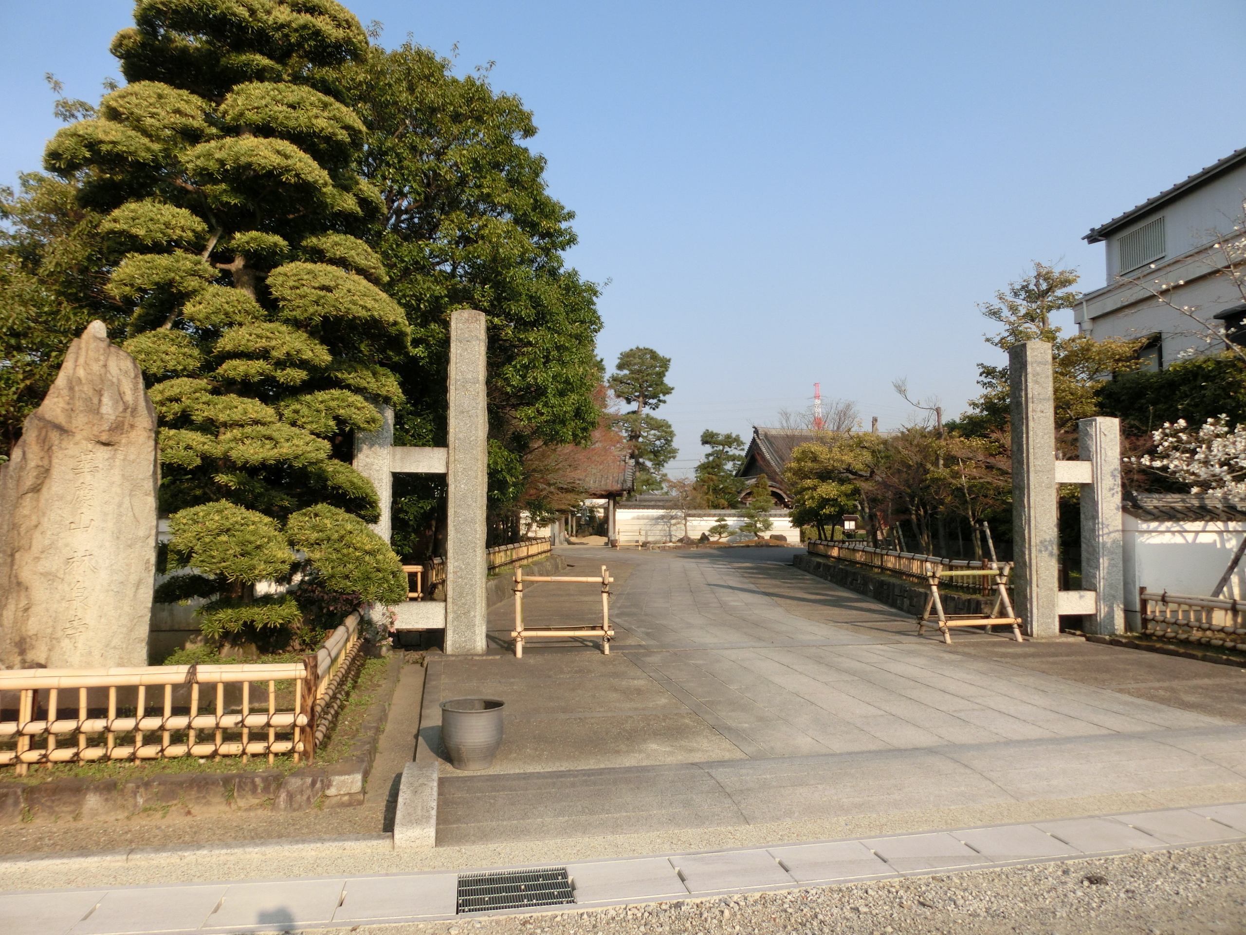 Rinsen-ji (Hekinan)